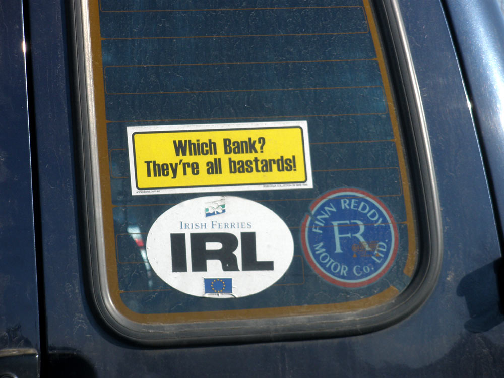 Reaction to Irish banking and financial crises: Sign on van window in Dublin saying, "Which Bank? They're all bastards!"